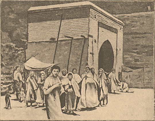 Illustration from Brockhaus and Efron Jewish Encyclopedia (1906—1913)